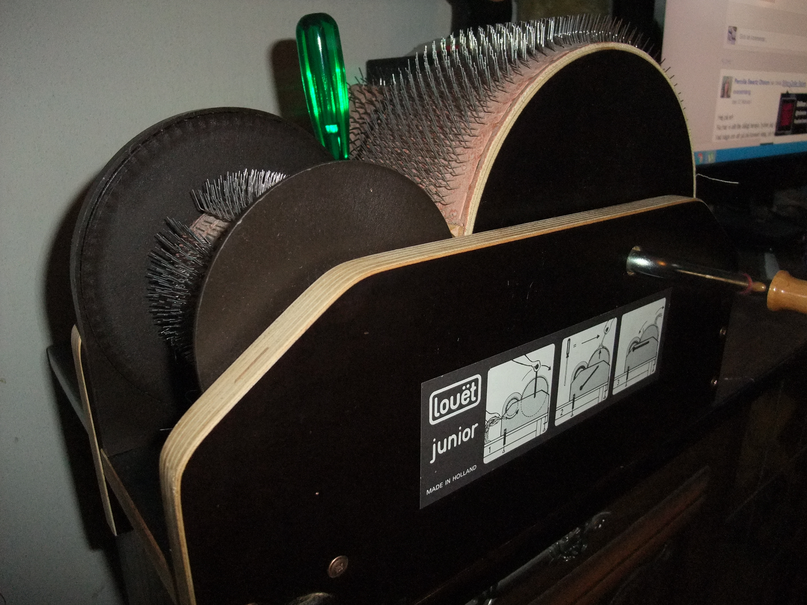 Carding machine Louet junior